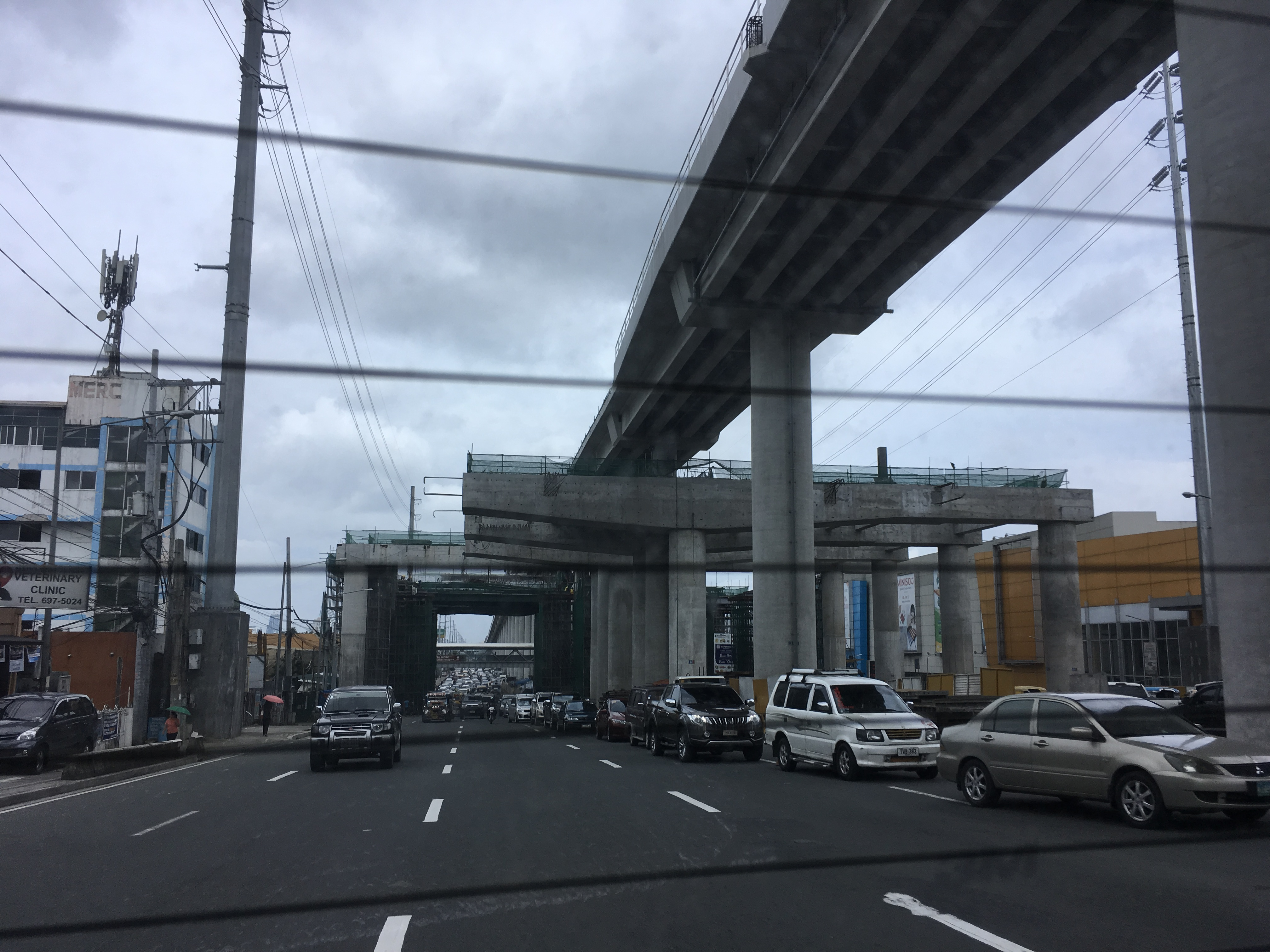 A picture of Masinag Station station under construction on June 2018